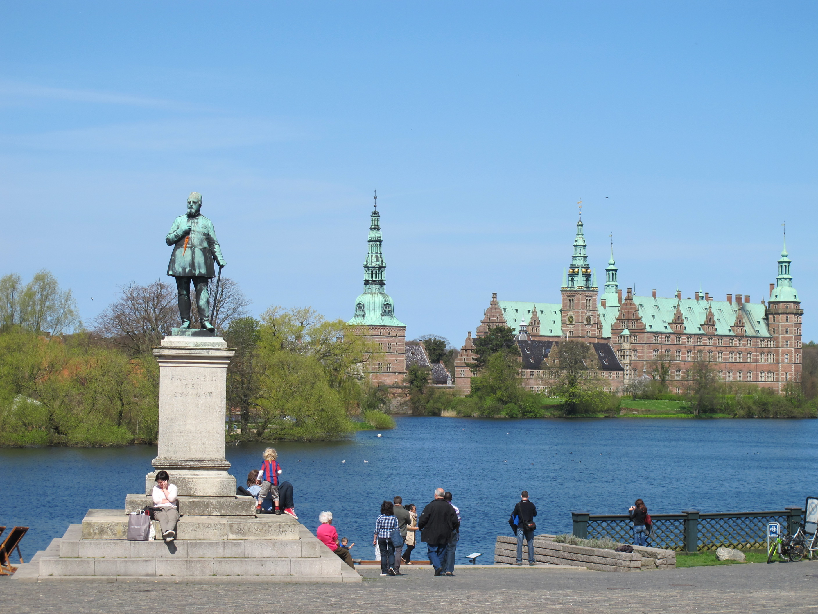 Monument to Frederik VII in front of Frederiksborg Castle